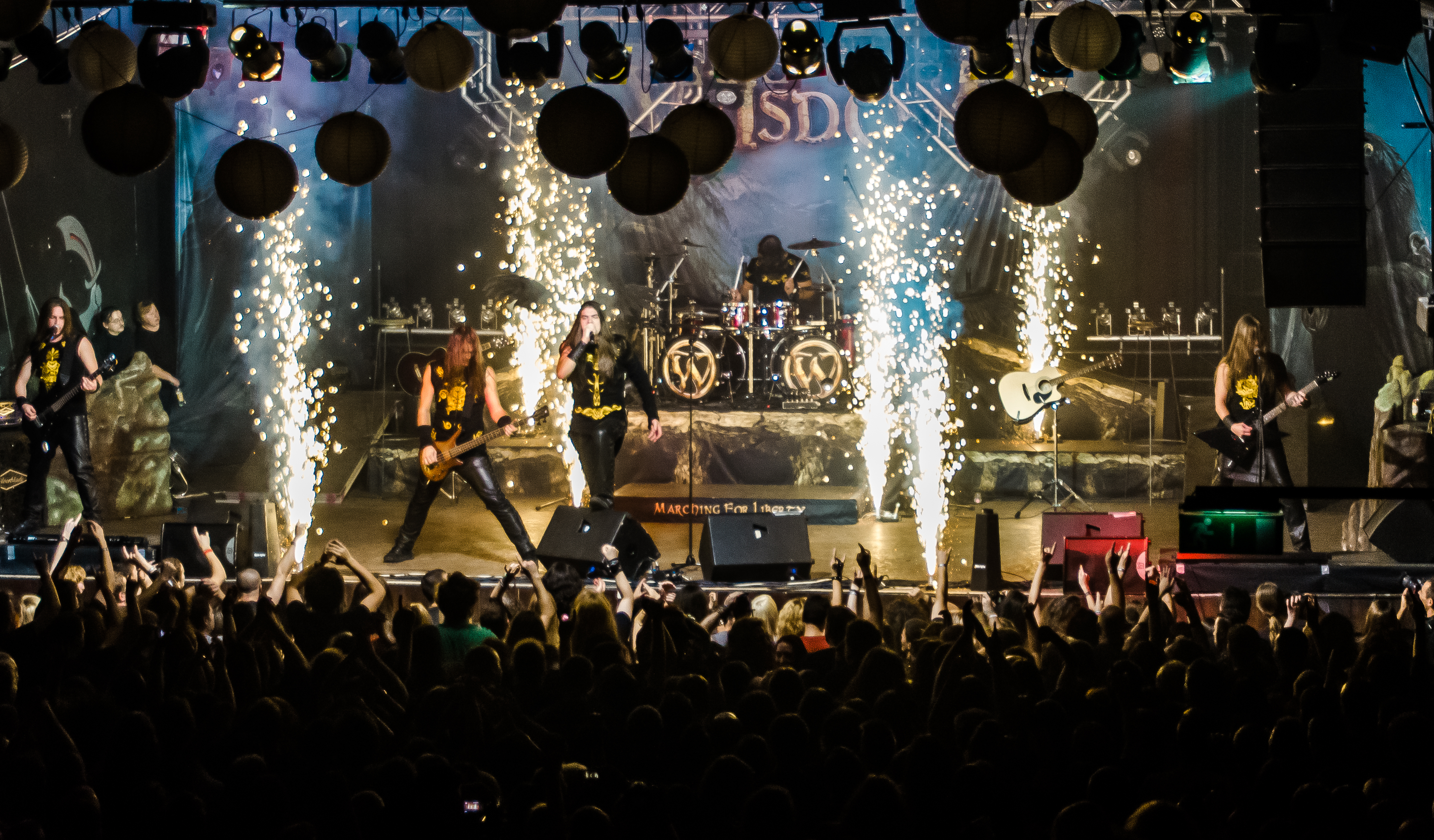 Photo taken of Wisdom on a live show in 2013